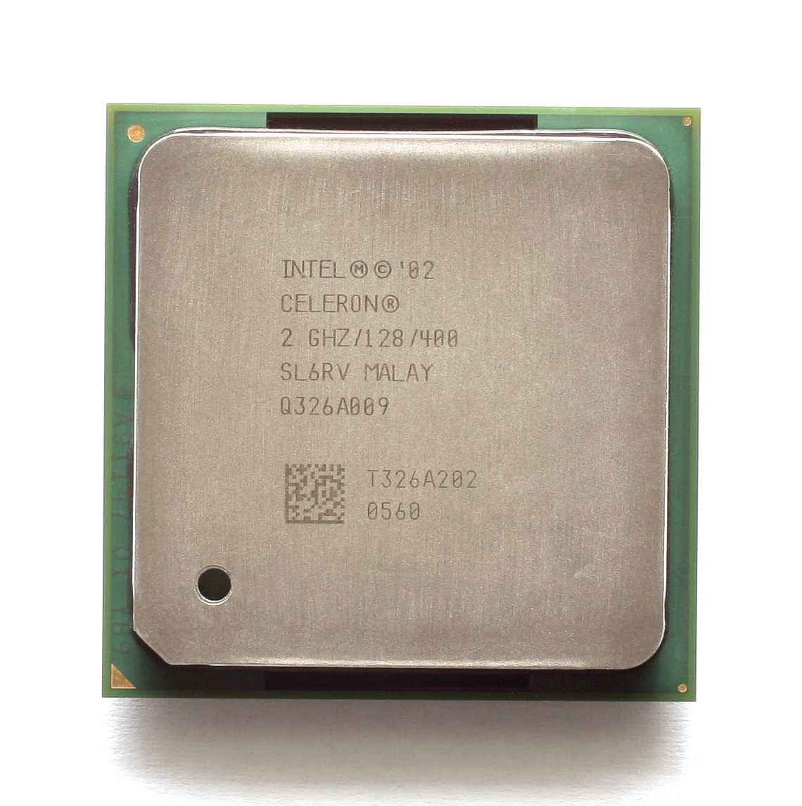 CPU Intel Celeron Northwood-128.